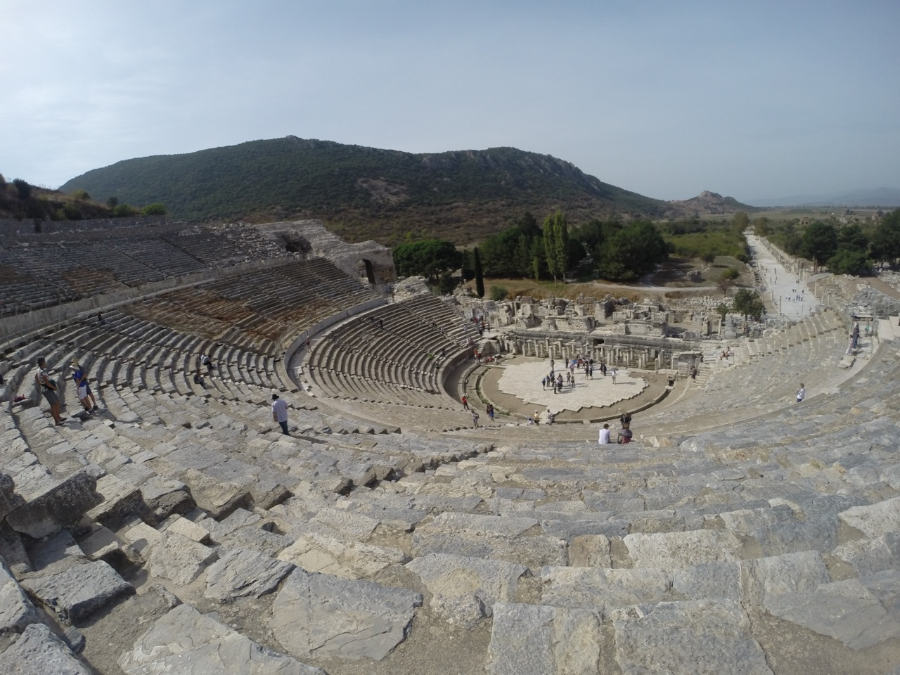 A wide angle photograph of the old roman theatre at the Ephesus archaeological site Other information Original file was 3000 × 2250 pixels in size, it was downscaled to 1280 x 960 pixels.